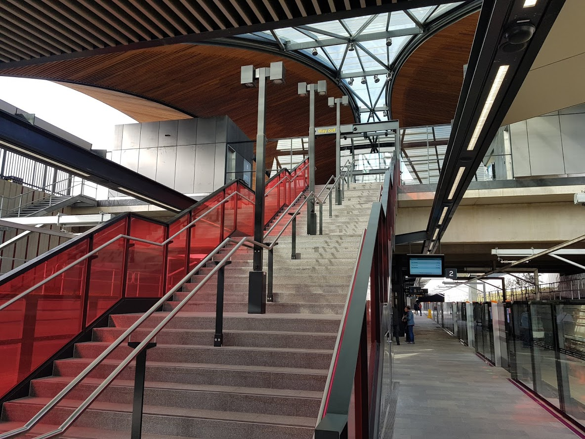 Cherrybrook railway station stairs view